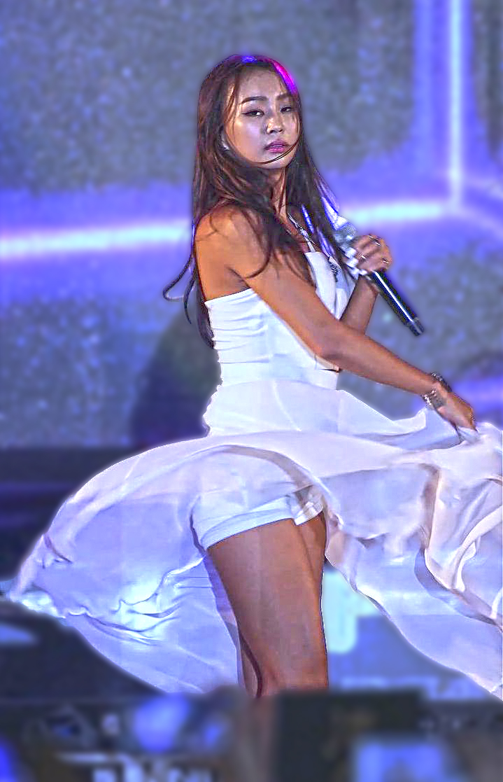 Hyolyn at Daegu Chimac Festival 2016